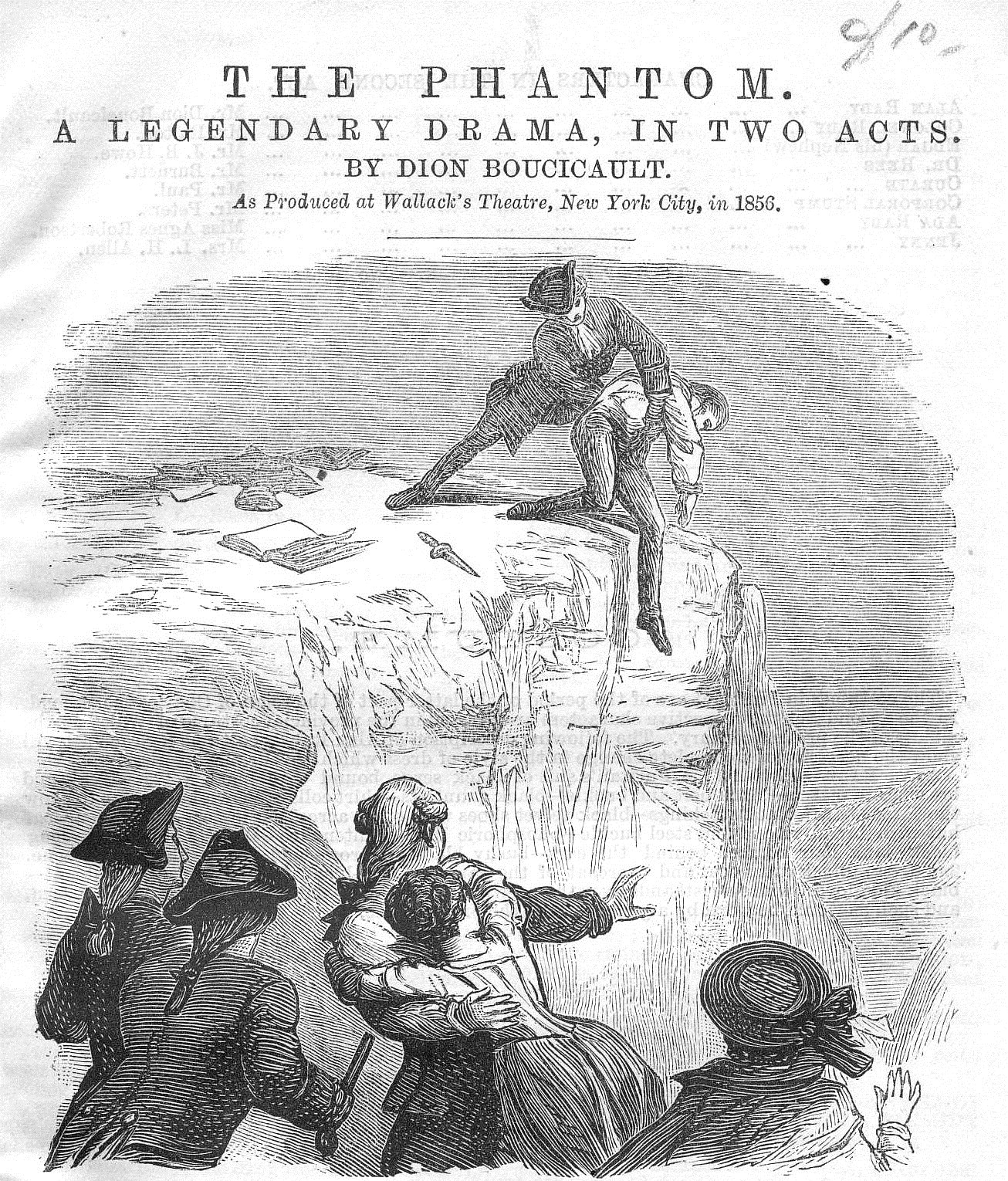 Title page for a prompt book of The Phantom by Dion Boucicault, as produced in 1856 at Wallack's Theatre in New York City.